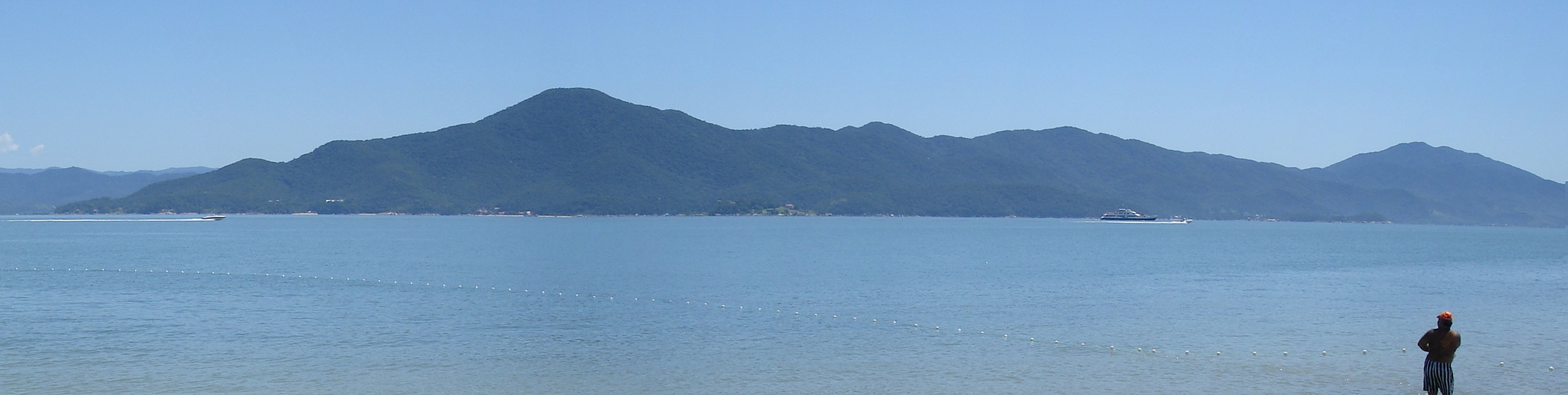 Panoramic of the natural reserve named APA DE ANHATOMIRIM, at Governador Celso Ramos. Photo made at the Daniela beach. Santa Catarina State, sourthern Brazil.